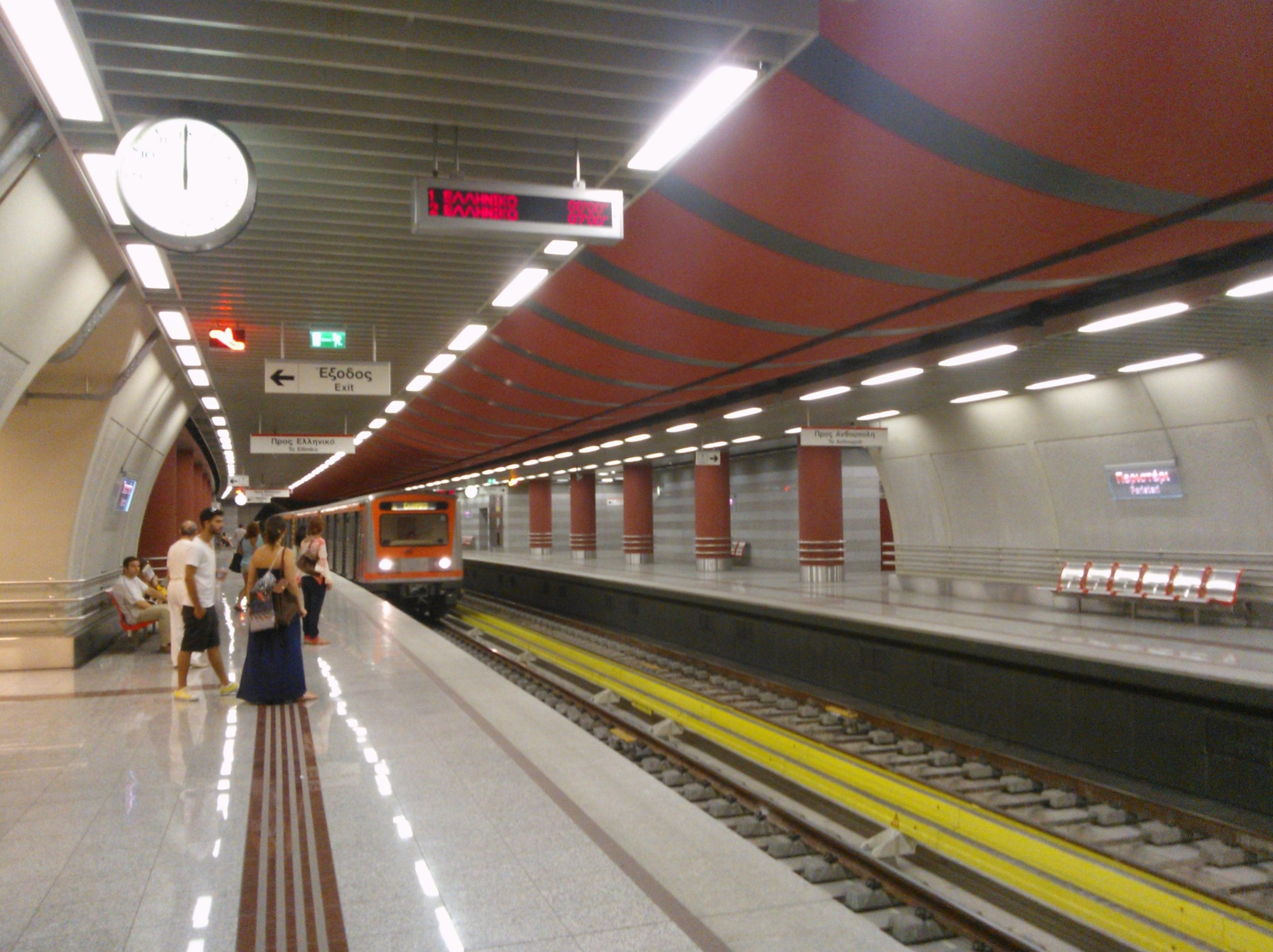 Peristeri Metro Station in 2013.